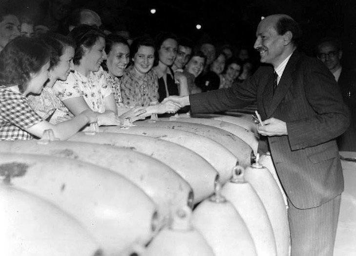 Lord Privy Seal Clement Attlee smiles as he shakes hands with cheering workers during a visit to ROF Hereford on Friday 11 July 1941. He is leaning over a pile of shells to greet the workers.